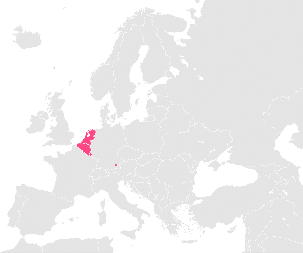 This map depicts the availability of Payconiq services in Europe. Payconiq is currently available in the Netherlands, Belgium, Luxembourg and the city of Munich.